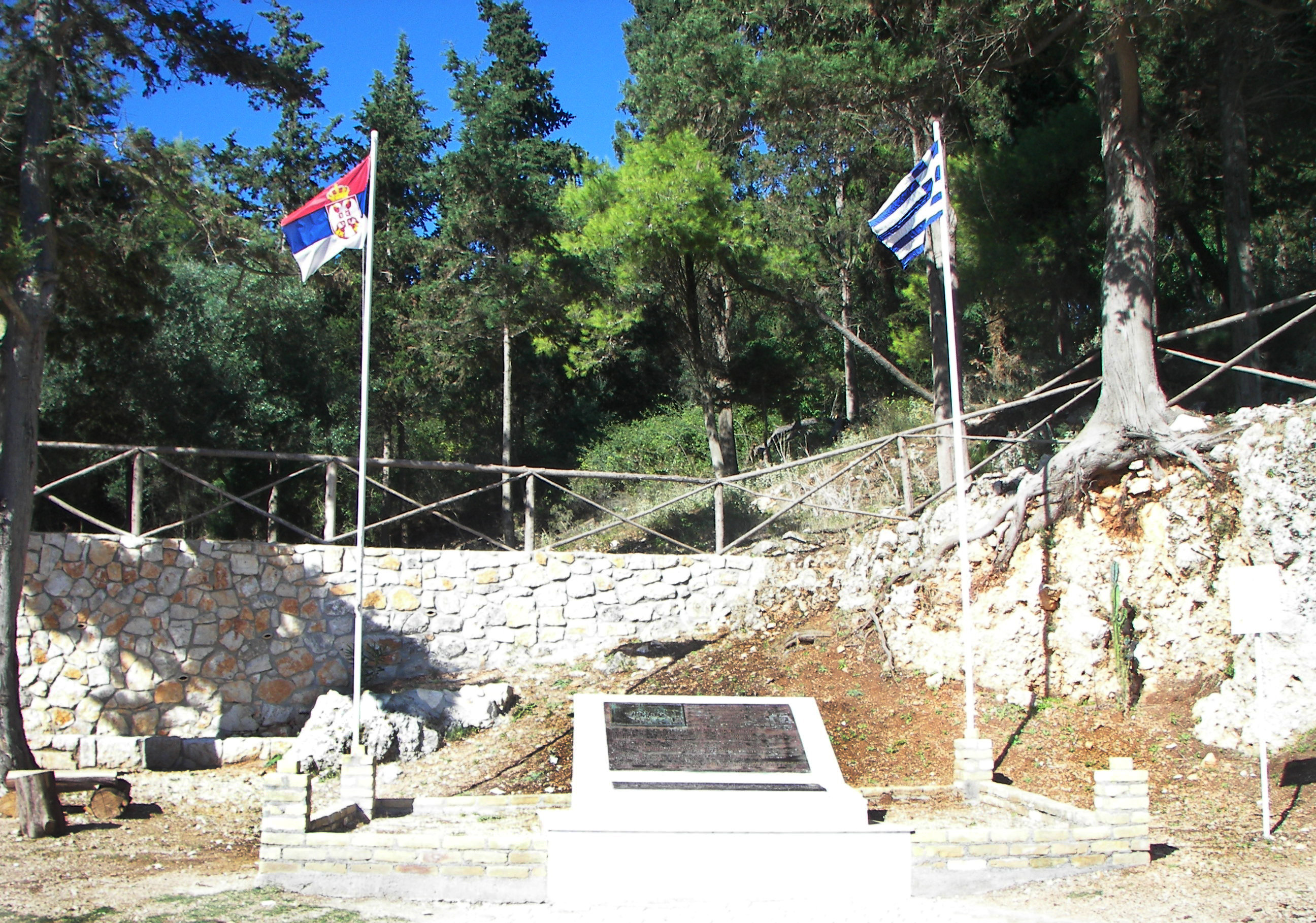 I am the author. Dr.K. 23:26, 8 September 2006 (UTC)